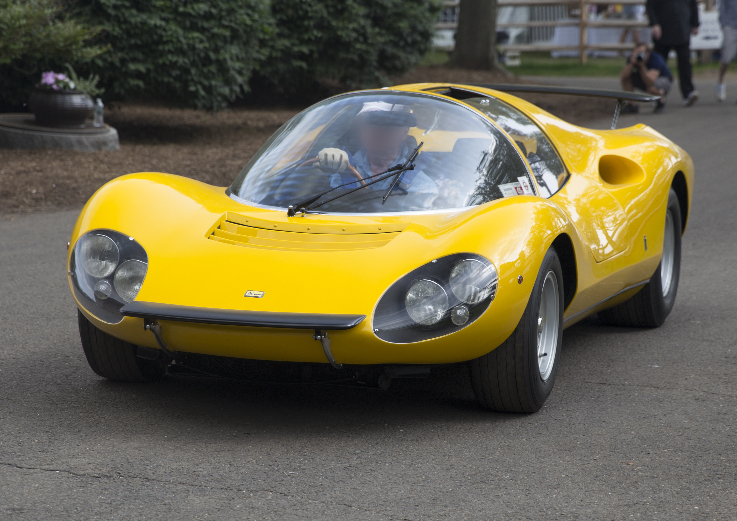 The stunning little Dino 206 Competizione Prototipo entering the 2019 Greenwich Concours d'Elegance. The driver was kind enough to honk the horn, which made a delightful squeaky little parping sound.